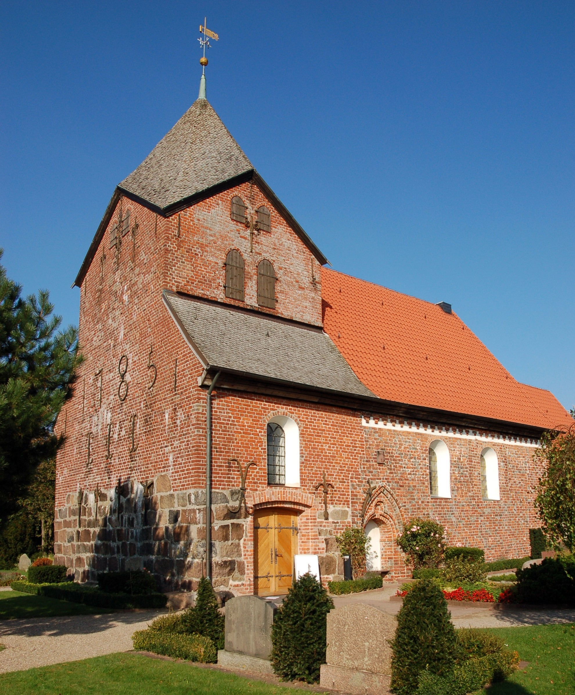 Schobüll Church, Nordfriesland, Germany